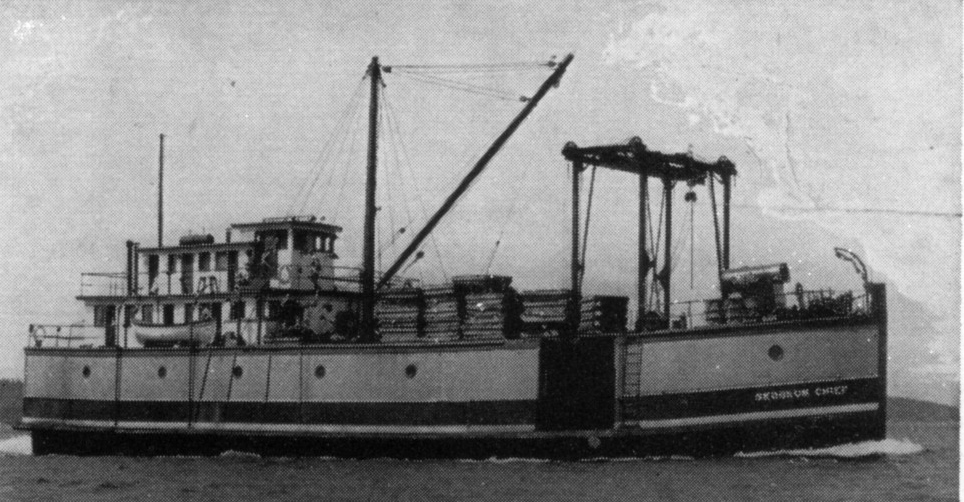 Skookum Chief, Puget Sound freight steamer.